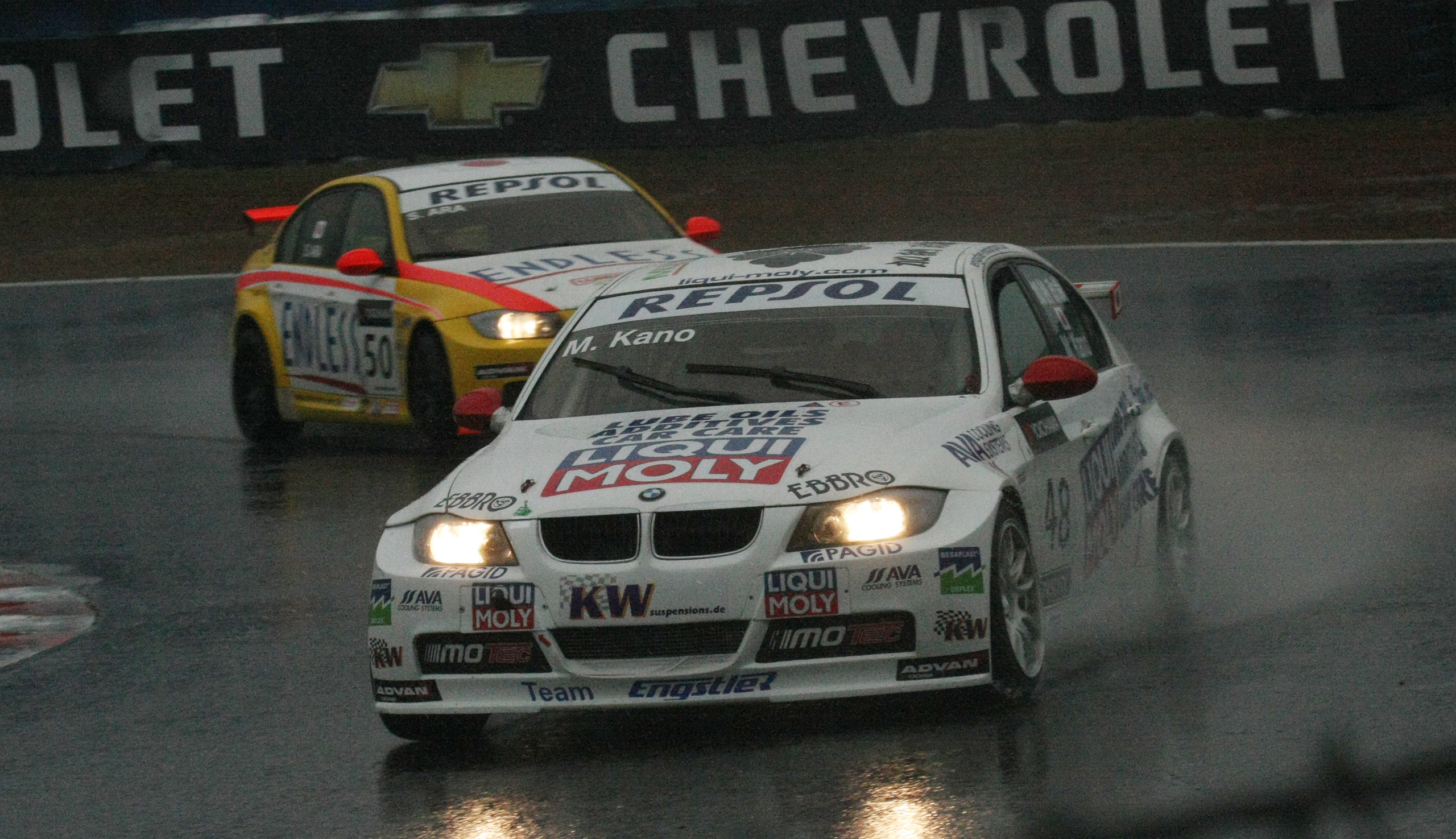 World Touring Car Championship 2009 Race of Japan: Masaki Kano (Team Engstler) during Race 2.